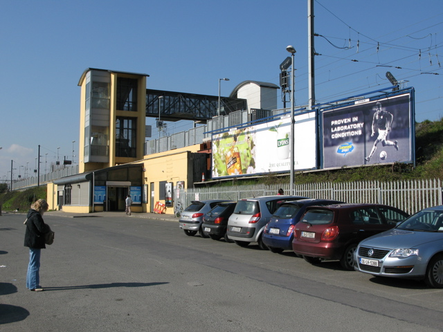 Clontarf Road Station, Dublin Clontarf Road Station was opened by Iarnród Éireann in 1997